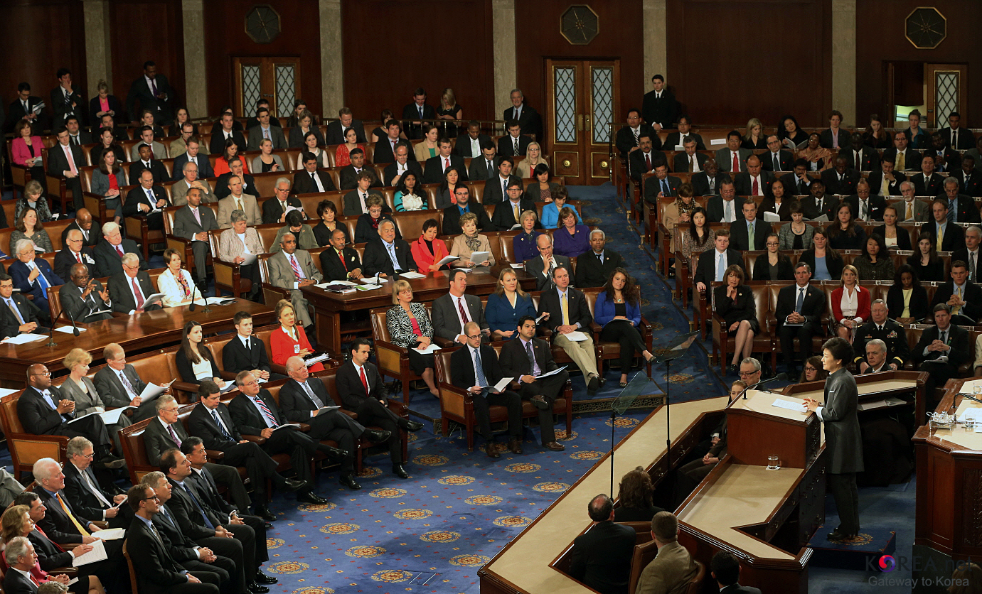 President Park at U.S. Congress President Park Geun-hye (bottom left), Vice President Joe Biden (top left), and House Speaker John Boehner (right) give a standing ovation to a Korean War veteran family after President Park introduced them on Capitol Hill in Washington, D.C. May 8. 2013.05.08.(U.S. Eastern Time) Cheong Wa Dae -Related Article- "President Park proposes Korea-U.S. alliance a global partnership" 박근혜 대통령 미국 의회 상하원 합동회의 연설 박근혜 대통령이 미국 의회 상하원 합동회의에서 연설을 하고 있다. 청와대